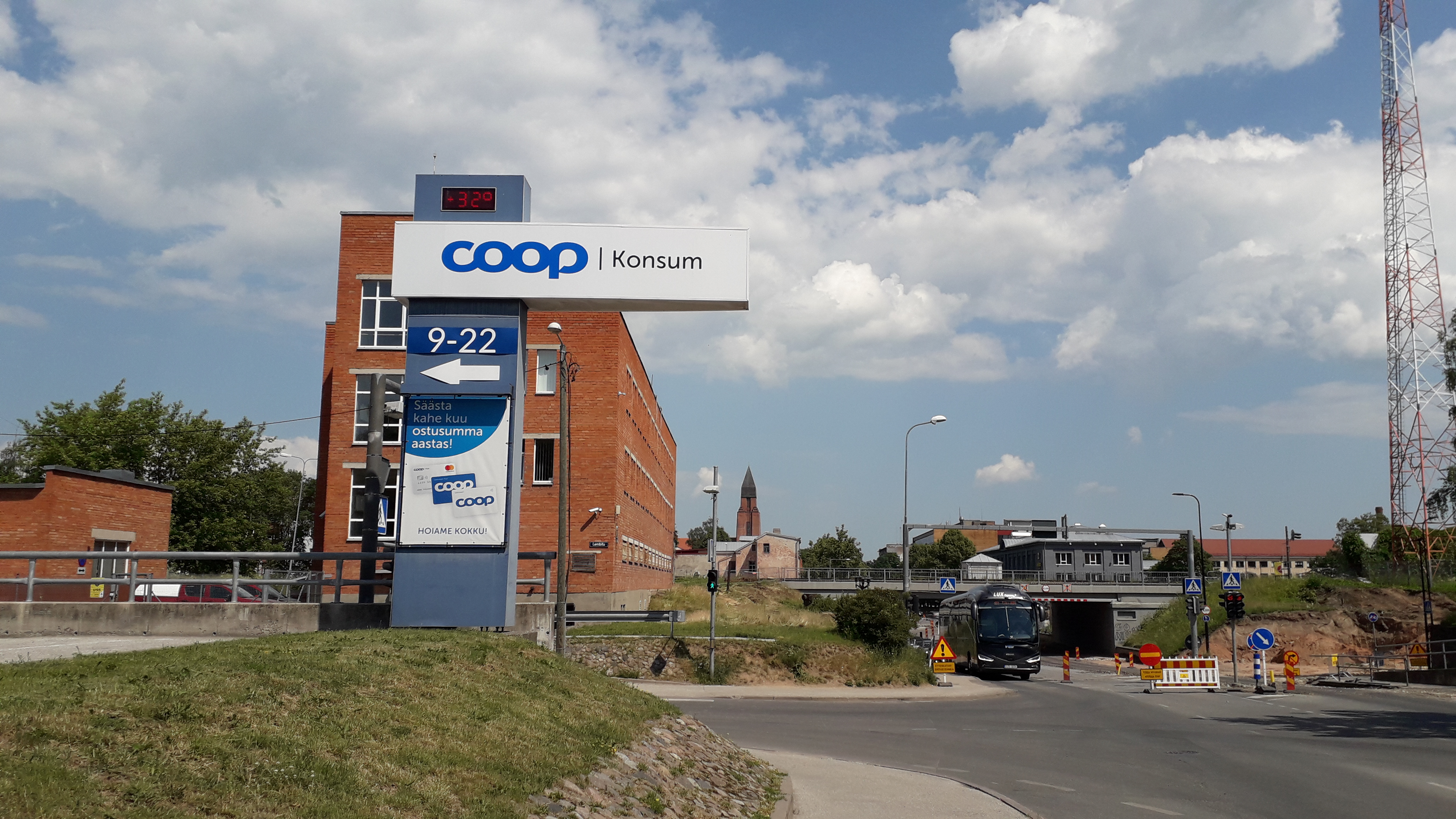 Riia tänava vaade Lembitu Konsumi juurest